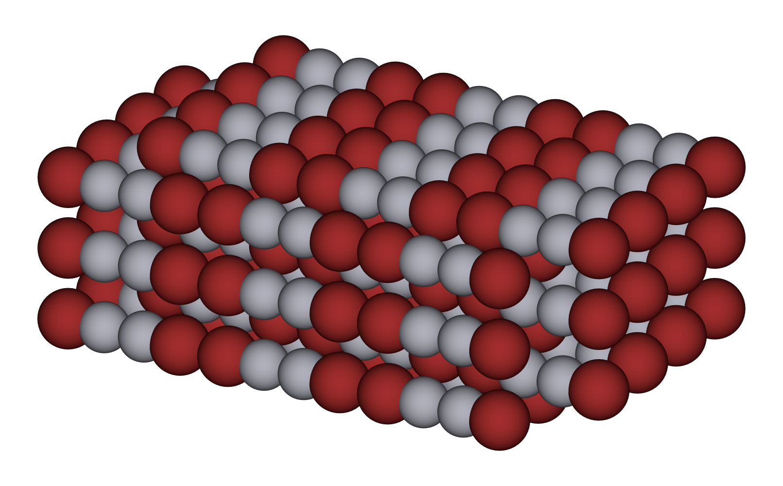 Space-filling model of part of the crystal structure of Mercury(I) bromide, Hg2Br2. Structural data from the CrystalMaker 8.1 structure library, originally from Wyckoff R W G Crystal Structures 1 (1963) 85-237.